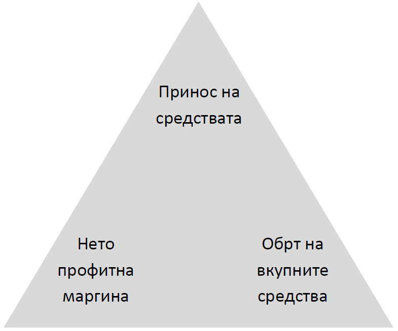 ROA = Net profit margin x Total assets turnover